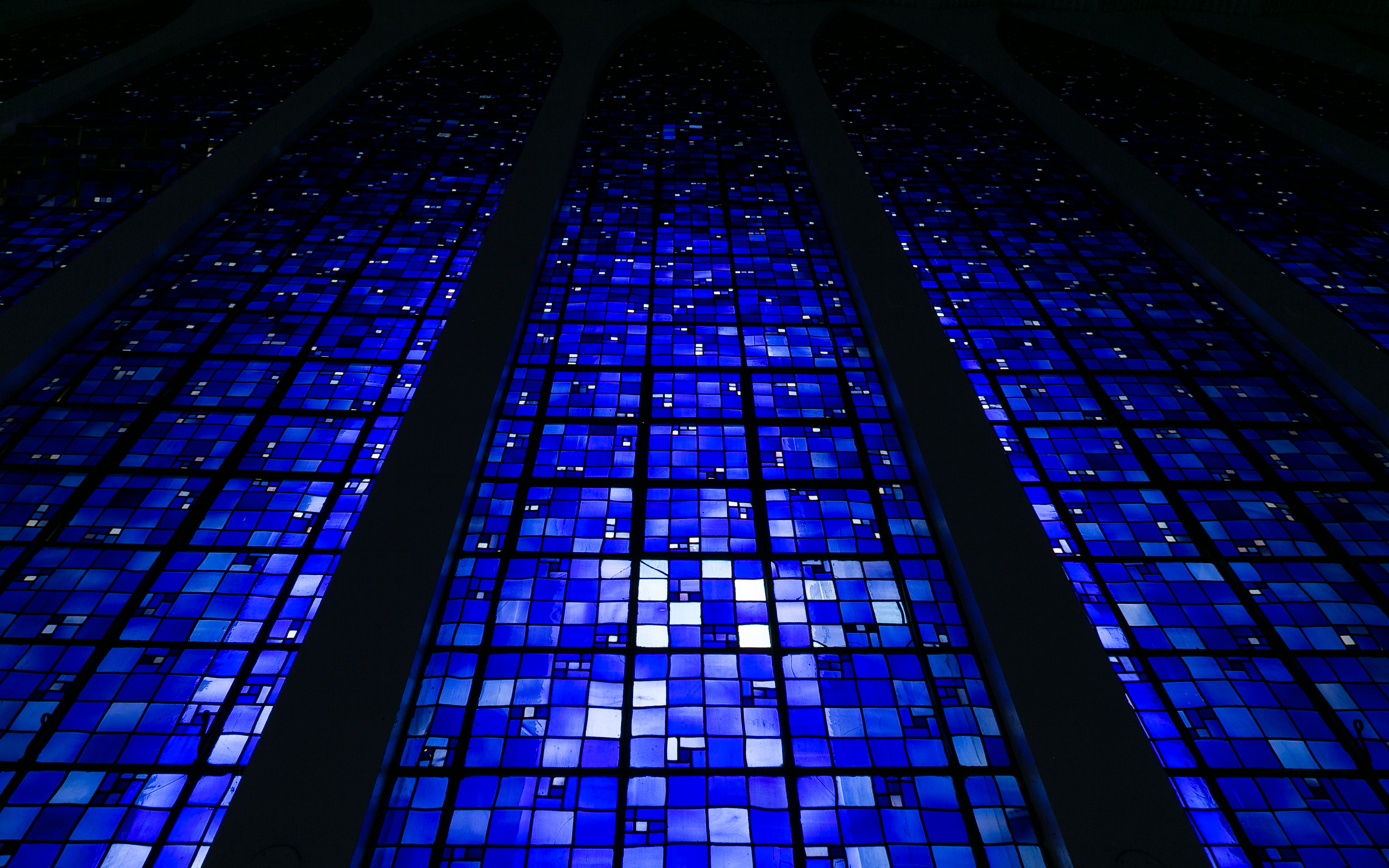 Stained glass windows of Santuário Dom Bosco (Dom Bosco Sanctuary) in Brasília, Brazil.